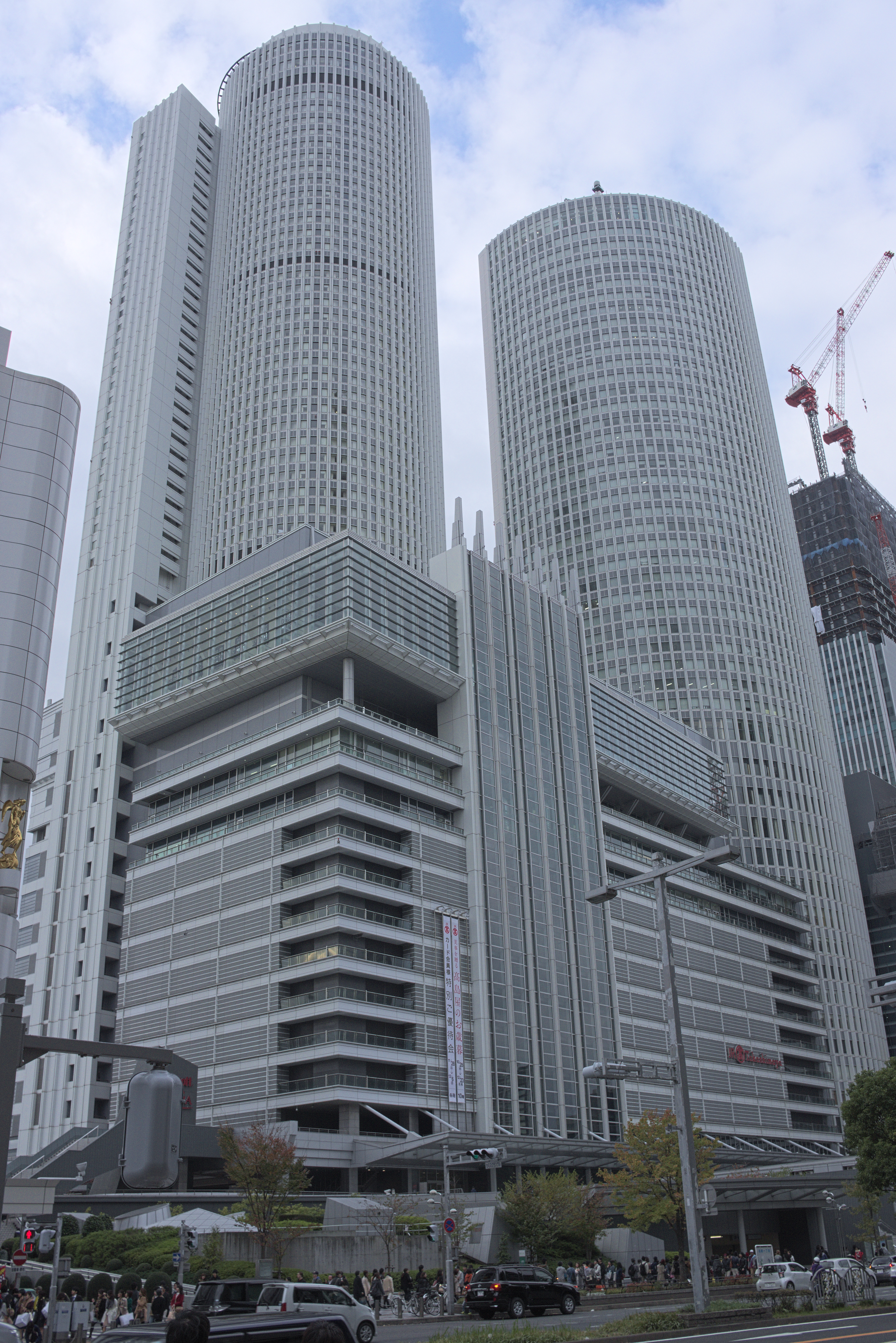 Nagoya, twin towers of the Central Japan Railway Company